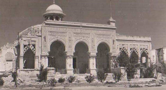 The former Italian Cyrenaica Palace of Cyrenaica Parliament in Benghazi, Libya damaged after World War Two. (the building is no longer standing in present day.)